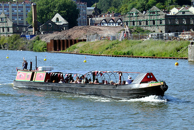 Redshank on the Floating Harbour. The Redshank is one of the Bristol Packet's Boats. Its is a converted canal narrowboat which now runs tours around the Floating Harbour. In the background is part of the harbourside which has yet to undergo redevelopment.